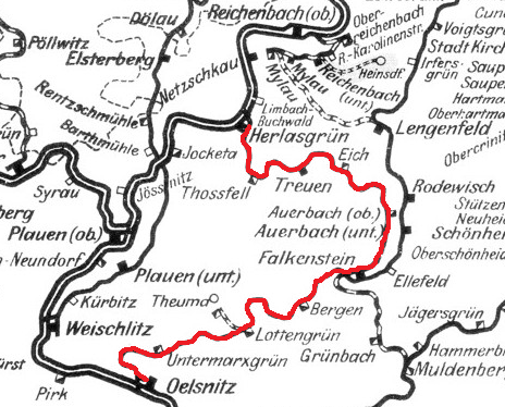 This image shows the course of the railway line from Herlasgrün to Oelsnitz (detail of this map).